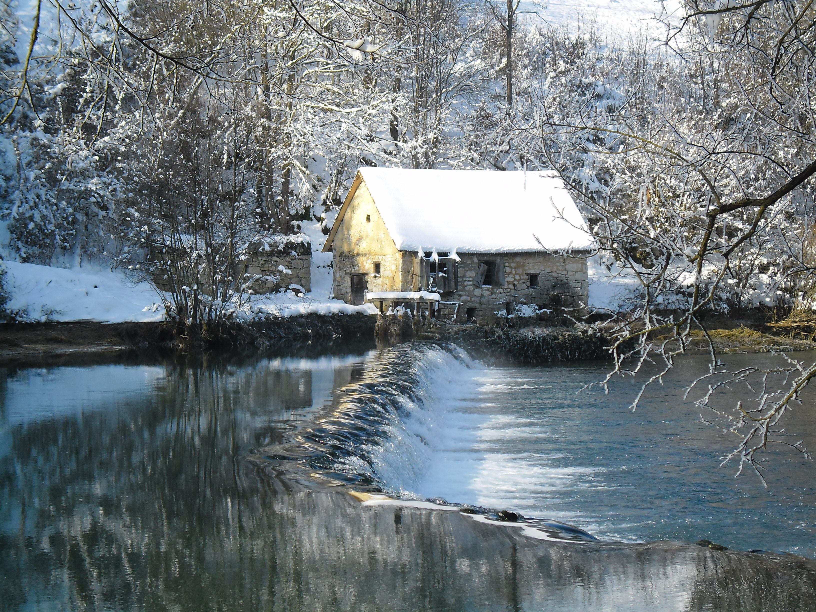 River Dobra, Generalski Stol, Croatia